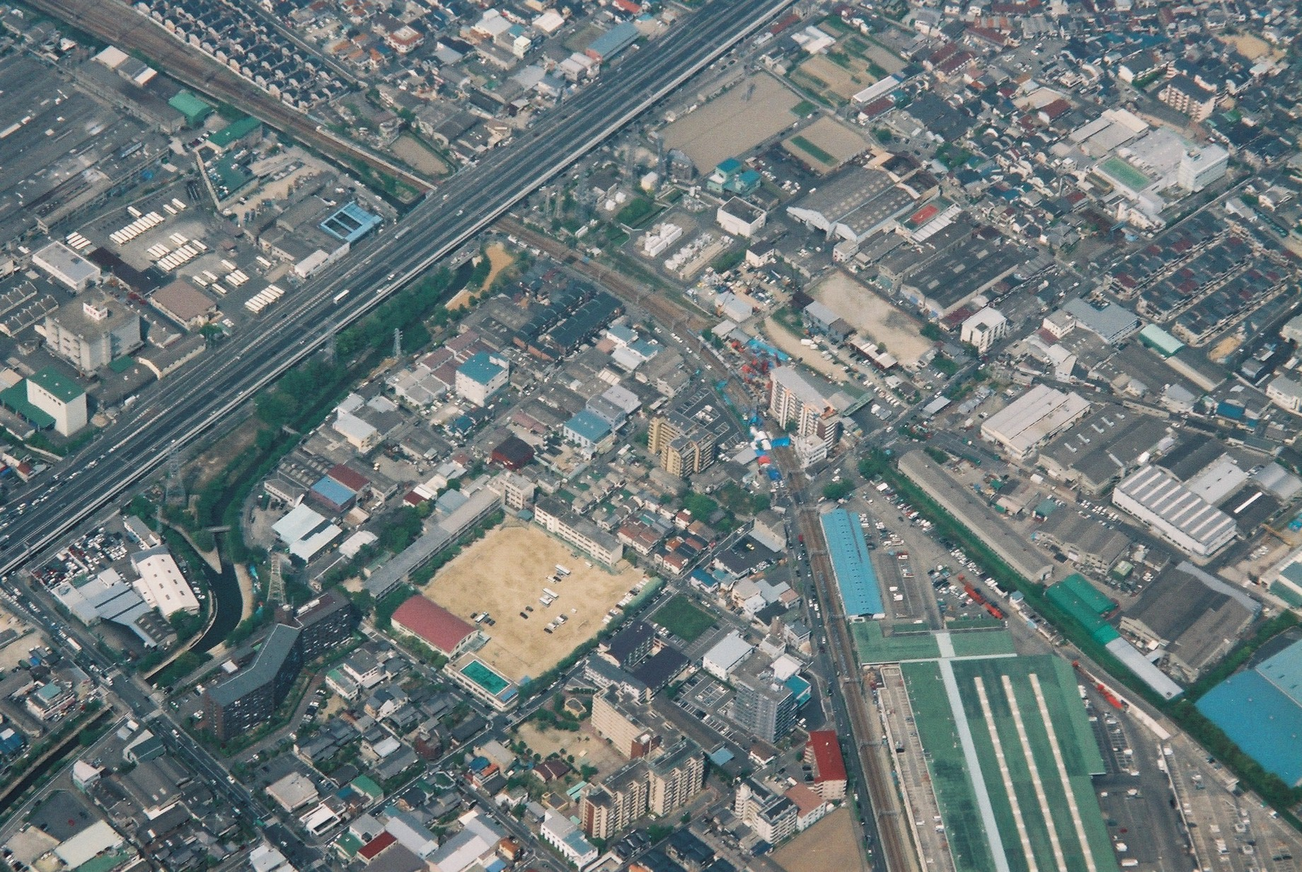 Four days after the JR Fukuchiyama Line derailment accident site. Search operation is underway in the derailed train. Blue sheets at the site can be seen.